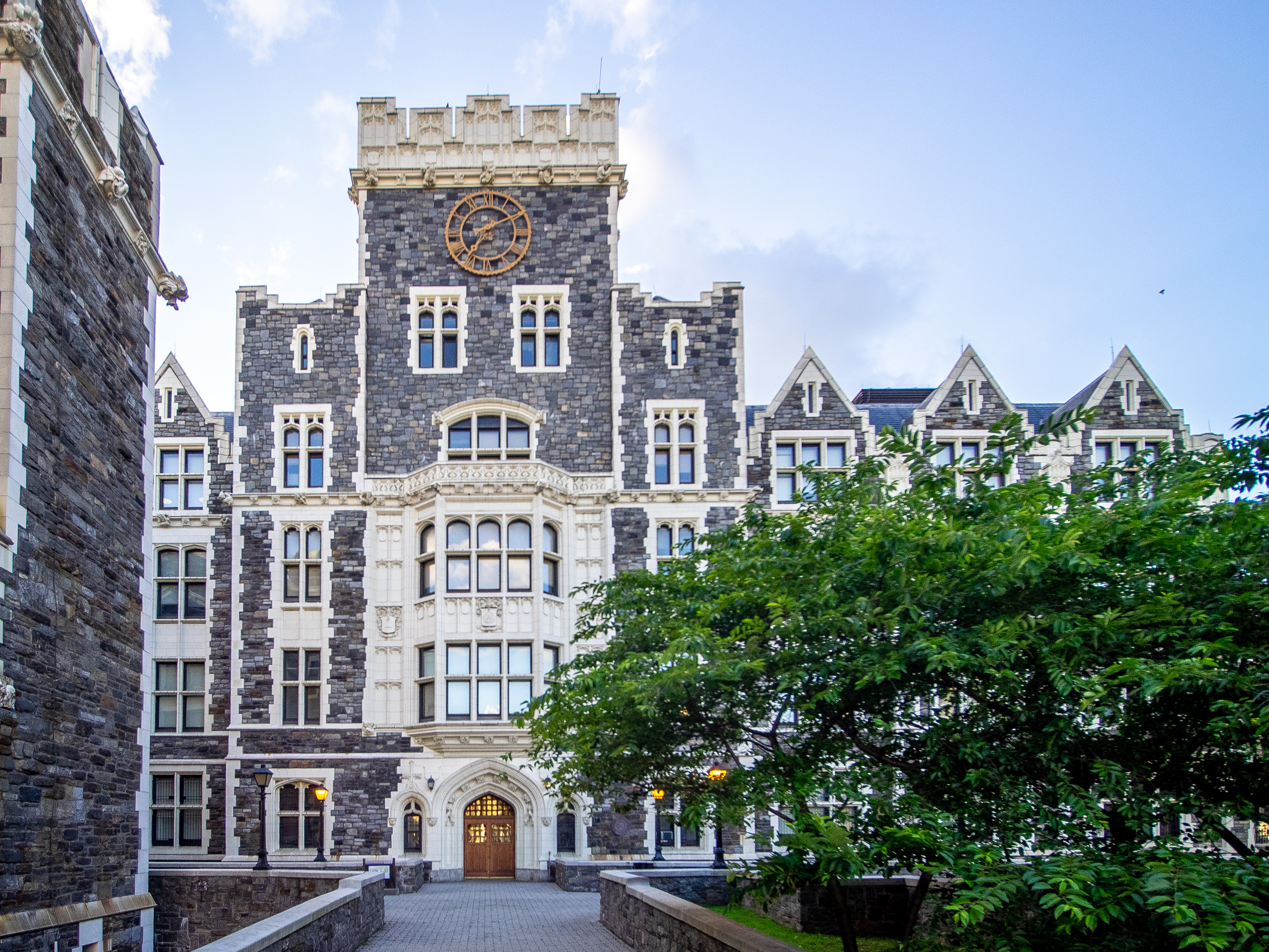 Hamilton Heights, Manhattan, NYC